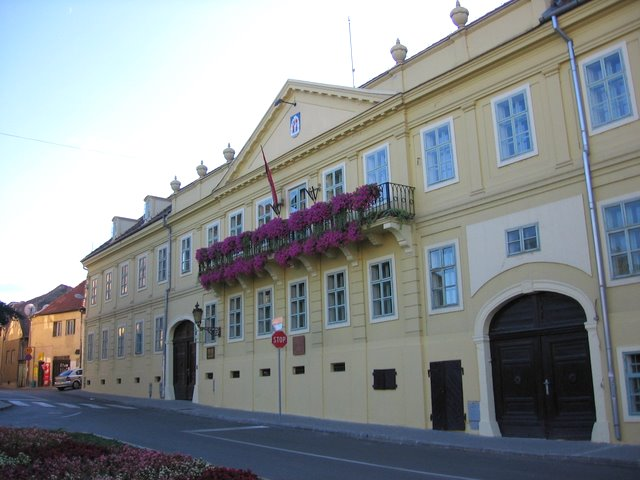 Sremski Karlovci City Hall, Sremski Karlovci, Serbia